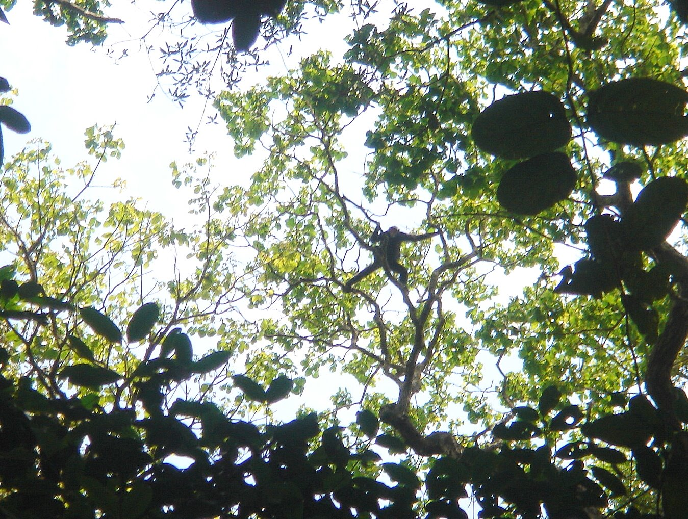 A Red-faced Spider Monkey (Ateles paniscus) in Aguazu Forest, Lower Rio Branco-Rio Jauaperi Extractive Reserve, Brazil.